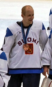 Sami Salo during Finland's on-ice bronze medal game victory celebration at the 2010 Winter Olympics in Vancouver.